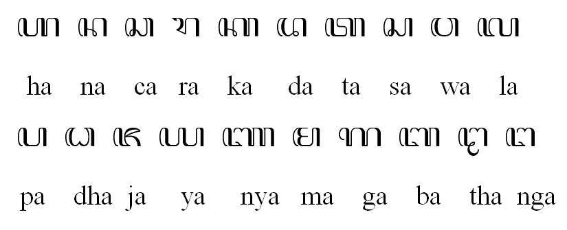 Basic letters of Javanese script